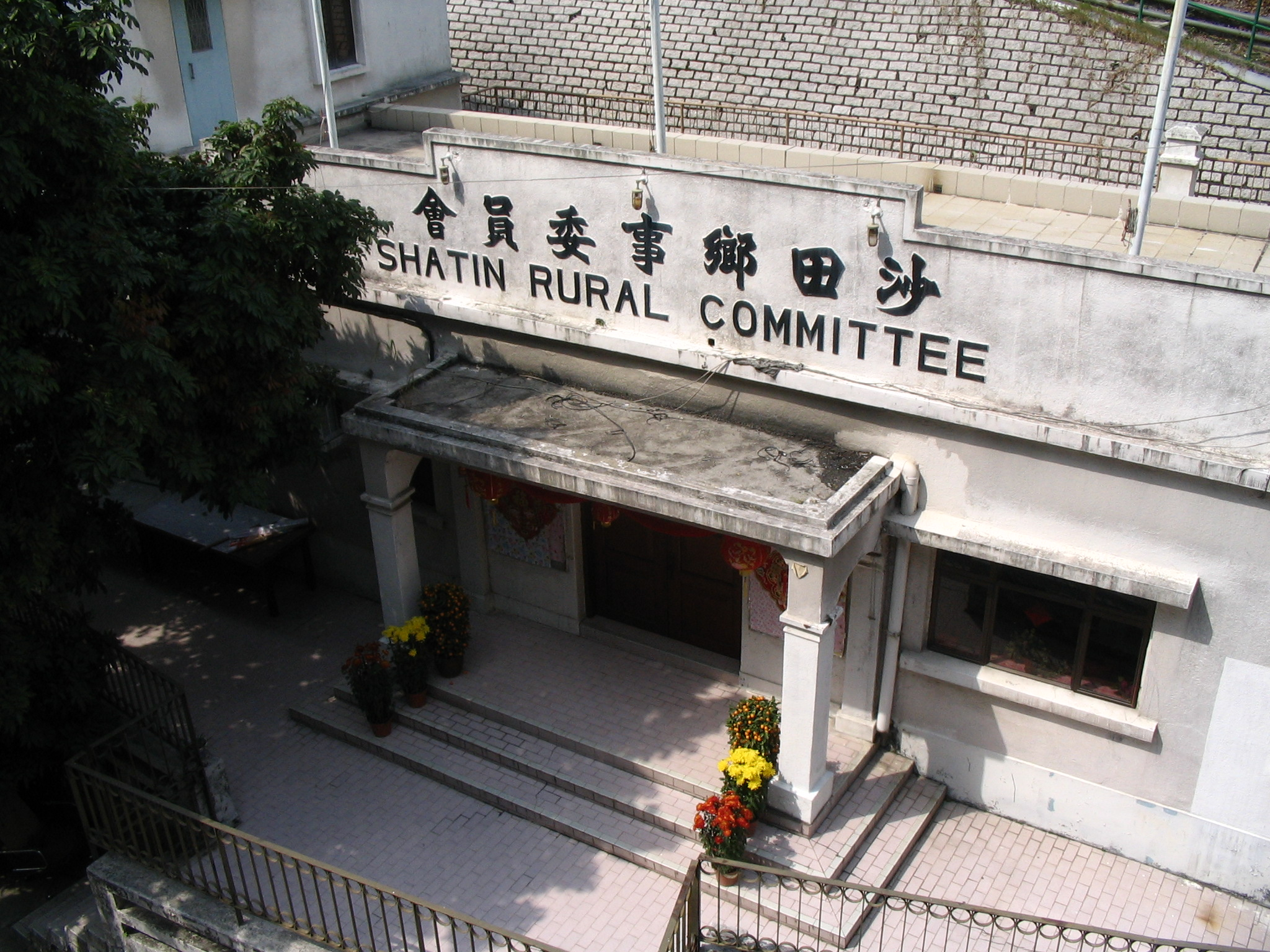 Shatin Rural Committee